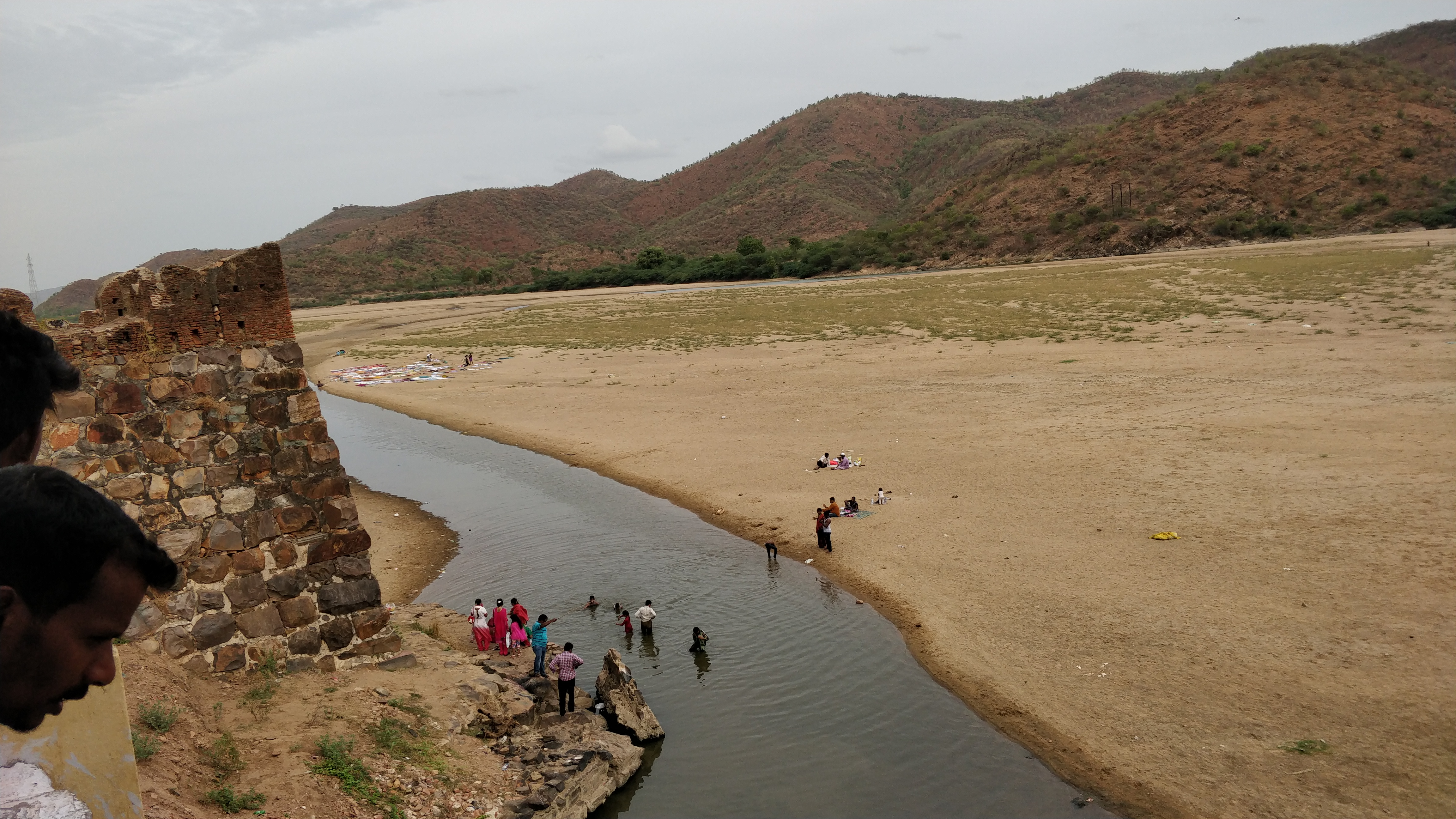 Fort , Moat and buildings